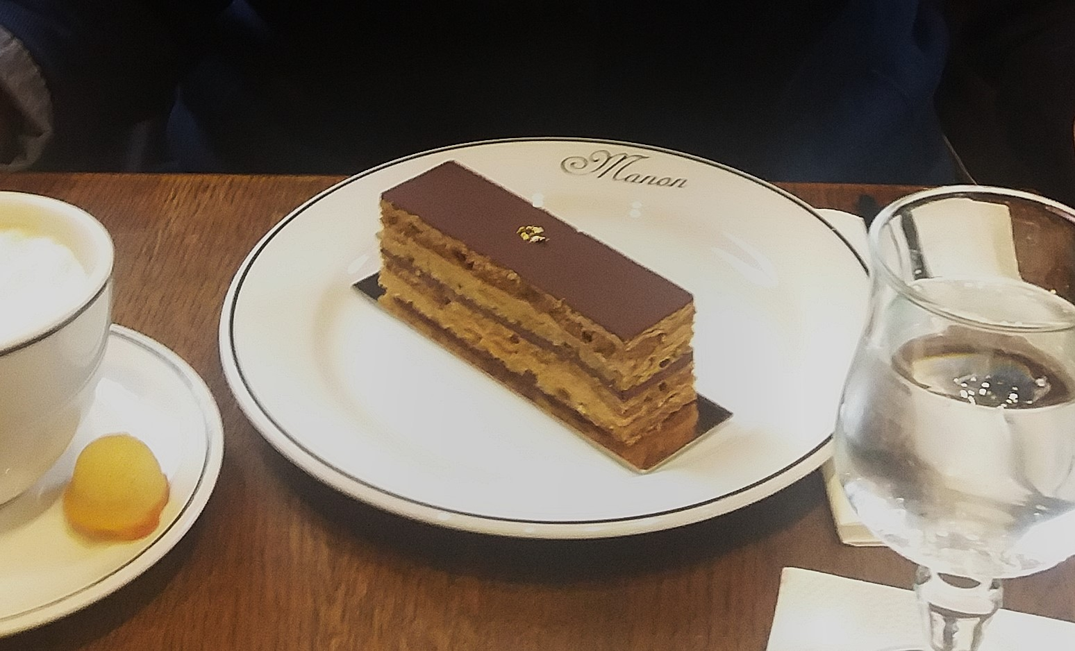 Opéra-cake (gâteau opéra).